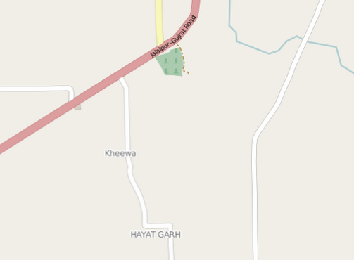 Location of Kheewa and Hayat Garh alongside Jalalpur–Gujrat Road